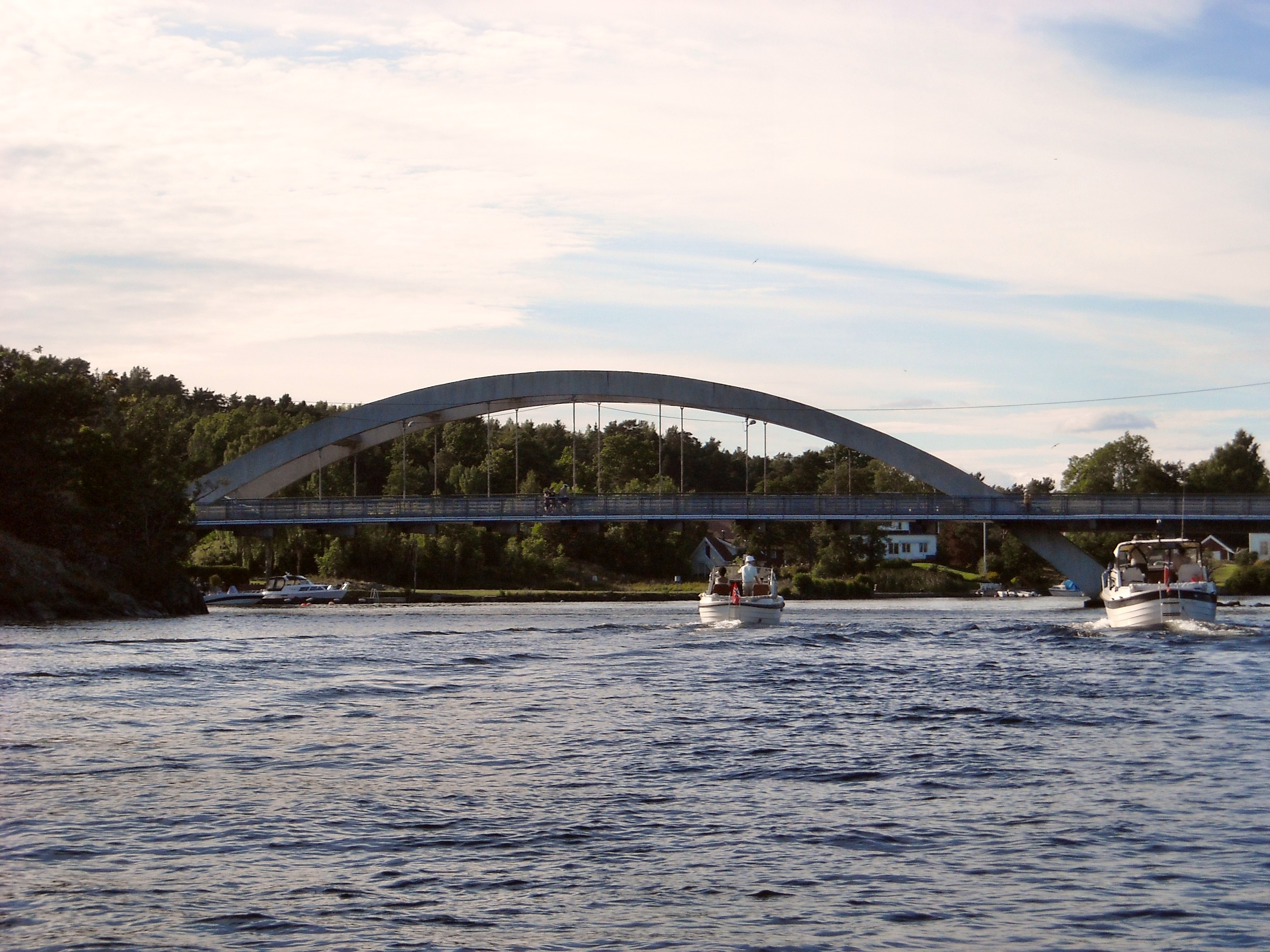 Vippa bru, a small bridge in Arendal, Norway between Hisøy and mainland.